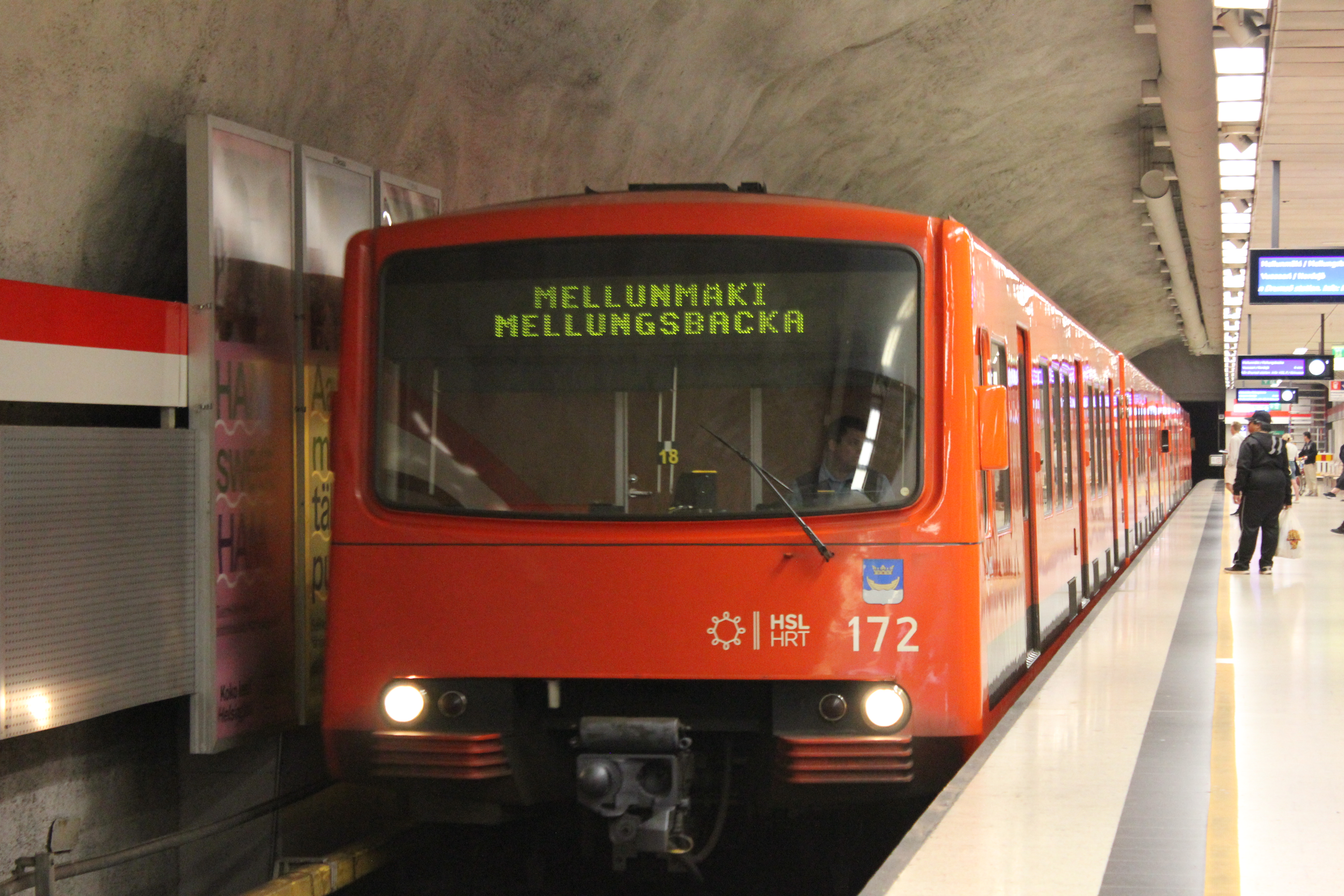 The M100-train has just arrived to Kamppi, in Helsinki.